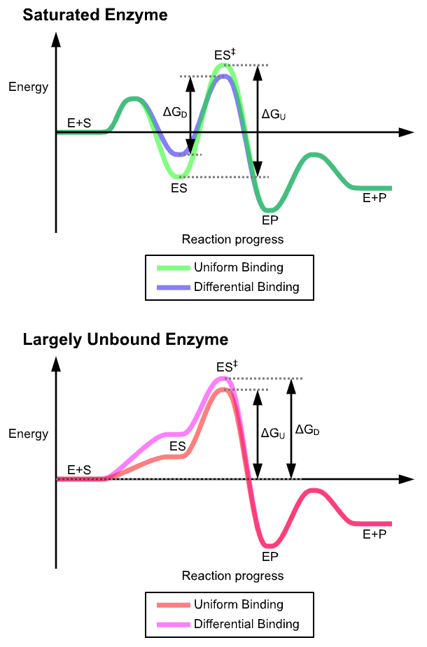 By Richard Wheeler (Zephyris) 2006